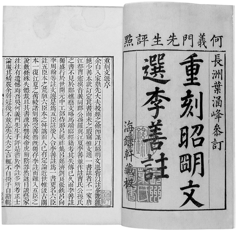 A scan of the He Yimen edition (Qing dynasty - c. 1700) of the Wen Xuan.